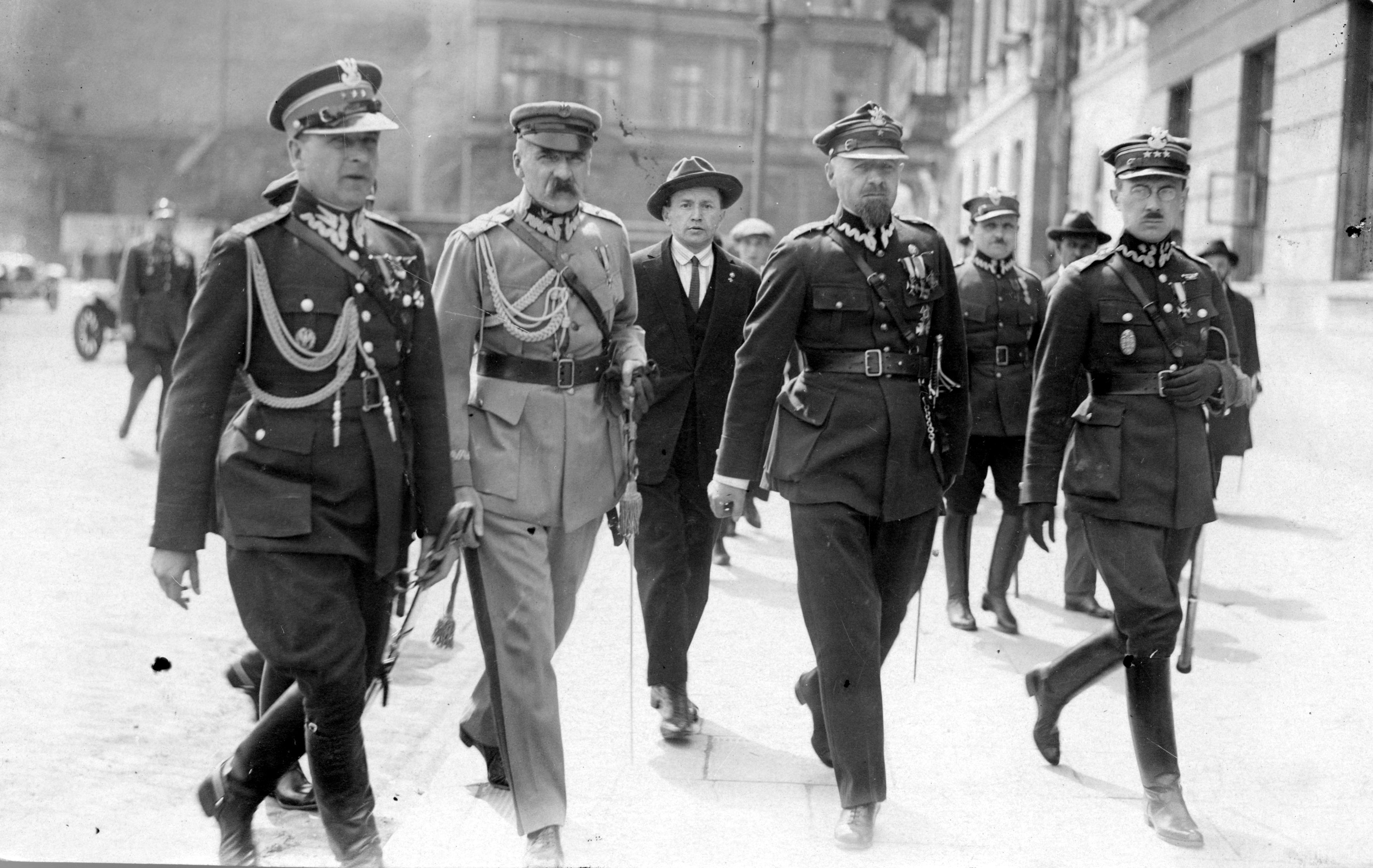 Bolesław Wieniawa-Długoszowski, Józef Piłsudski, Aleksander Prystor, Wacław Stachiewicz. Warsaw, end of May 1926